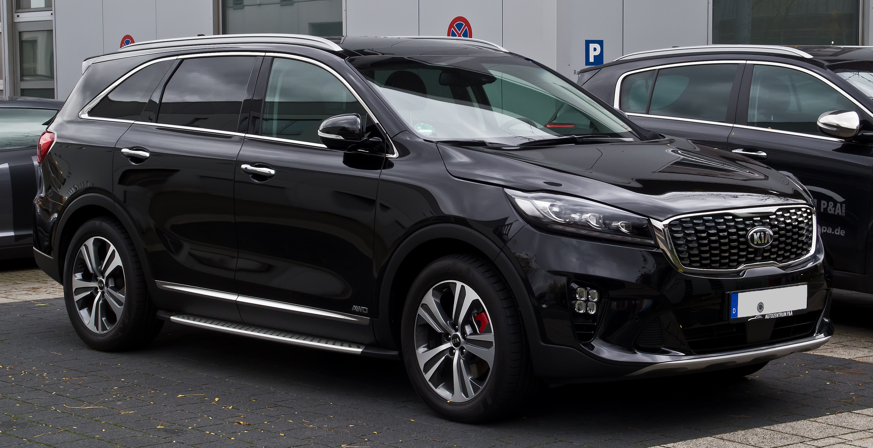 Kia Sorento 2.2 CRDi AWD GT-Line (III, Facelift)